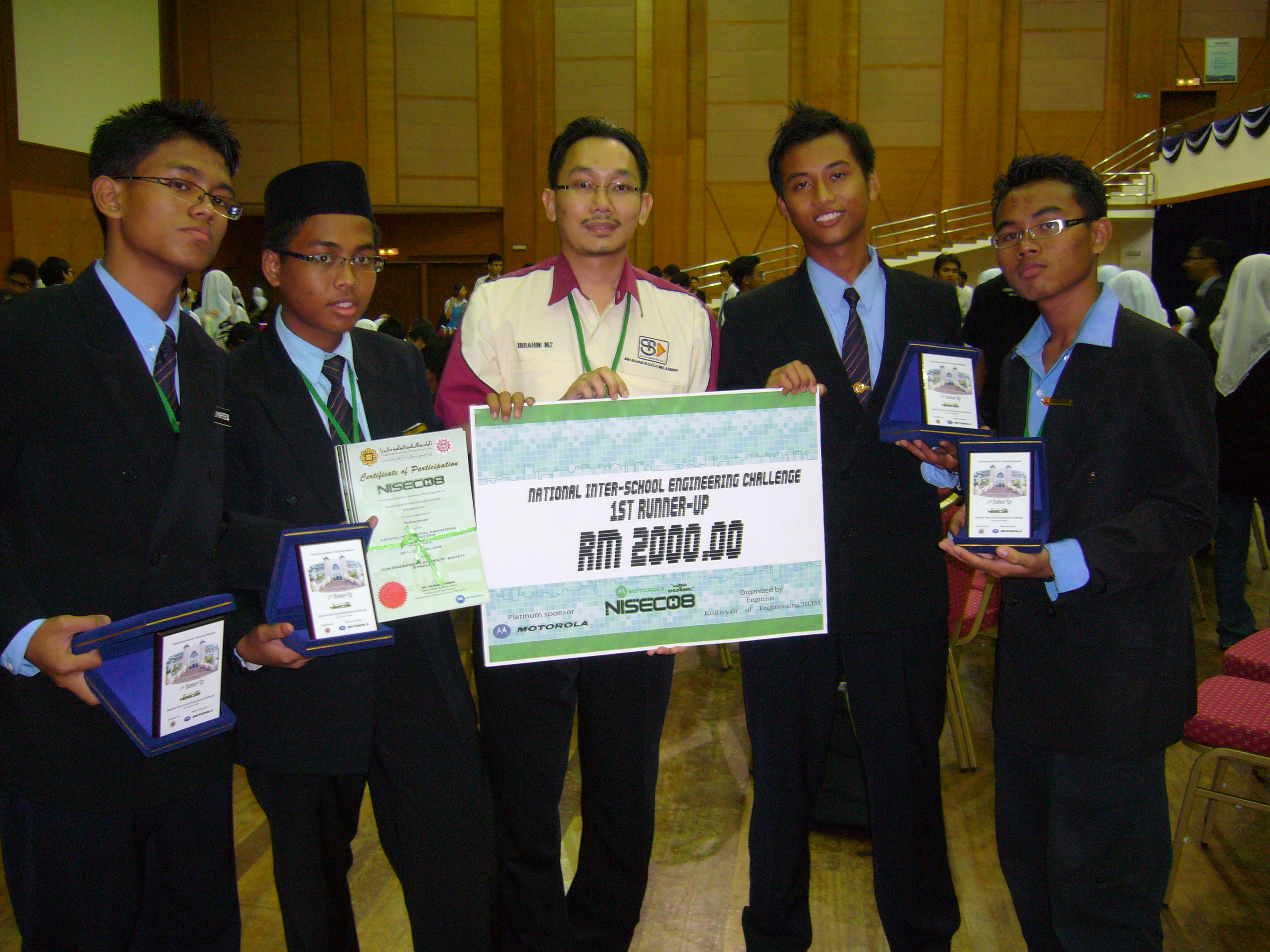 KUSESS Team achieving first runner-up in 2008 IIUM National Interschool Engineering Challenge